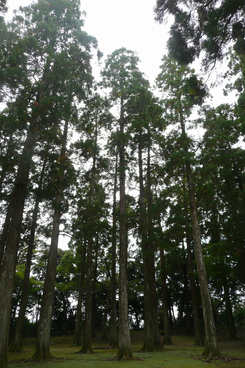 Obi Sugi — Japaneses cedar tree (Cryptomeria japonica) sugi forest. At Obi Castle, Old Honmaru — Nichinan City, Miyazaki, Japan)